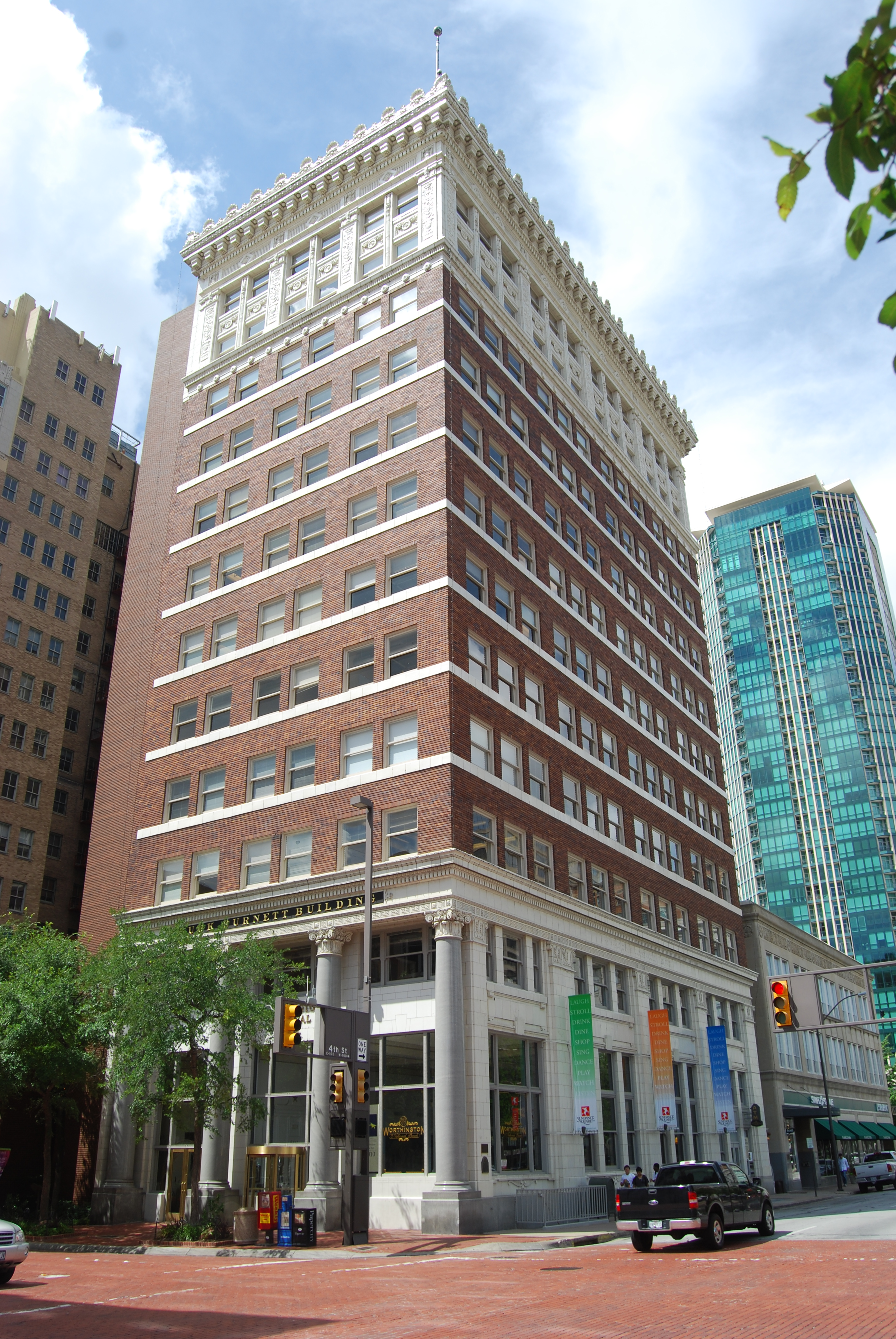 500 Main Street, Fort Worth, Texas Built in 1914 The building was designed by Sanguinet & Staats and was the city's first true skyscraper. The building is neoclassical in design and it was originally built as the home of the State National Bank. The base of the building is white terra cotta with granite columns on the Main Street facade. The middle of the building is red brick with a terra cotta band string course separating each floor. The top of the building is again white terra cotta with an elaborate cornice. Because it was the tallest building in the city when it was built, the ornamentation continues on the sides of the building that face away from the street. However, the ornamentation is with a different color of brick instead of terra cotta. Buchanan and Miller were the General Contractors. This was the third building designed by Sanguinet & Staats of similar appearance. Fort Worth Architecture